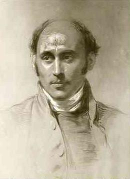 Subject: Short, Augustus